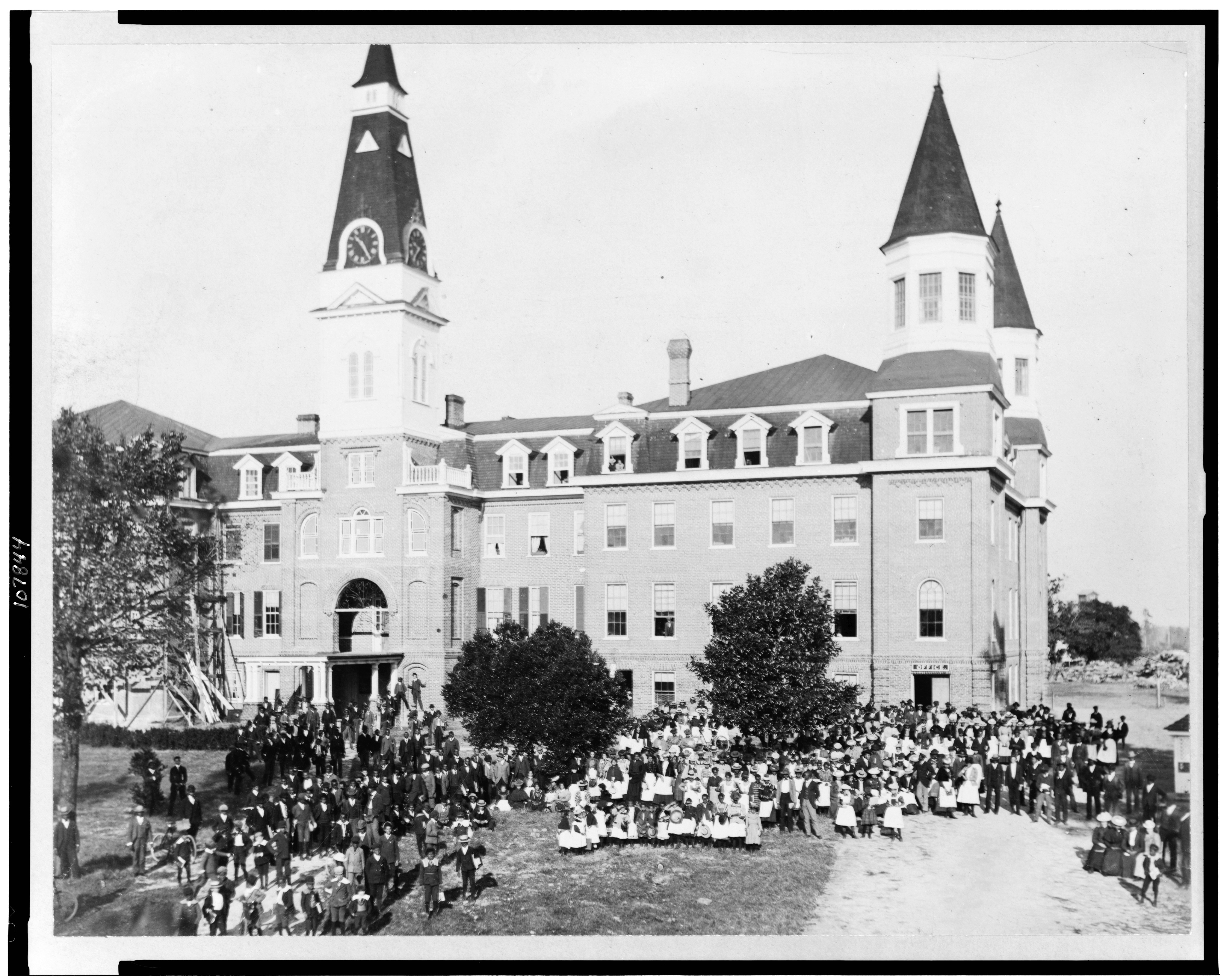 Title: Main building of Claflin University, Orangeburg, S.C. Abstract: Crowd standing before the main building. Physical description: 1 photographic print.